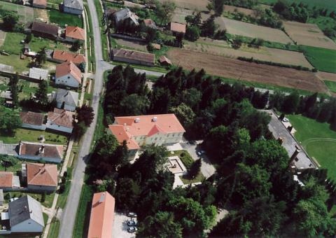 Tanakajd, Hungary, Ambrózy´s manor house, aerialphotography